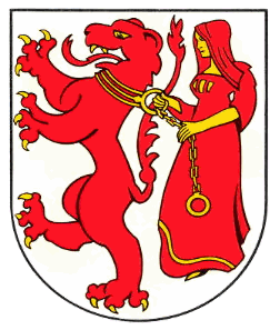 coat of arms city of Frauenfeld, Switzerland